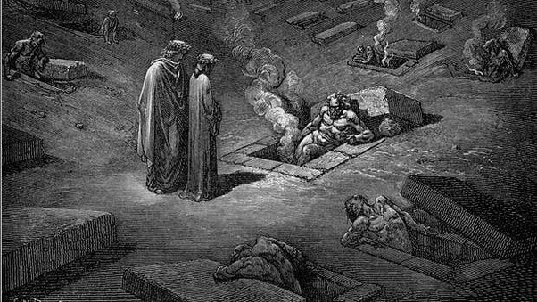 This 1861 engraving by Gustave Dore depicts Cantos IX and X of Dante's Inferno, in which Dante and Virgil explore the Sixth Circle of Hell and speak to some of the heretics who are punished there. Here the poet listens to the account of a fellow Florentine, the Epicurean and Ghibelline leader Farinata degli Uberti.